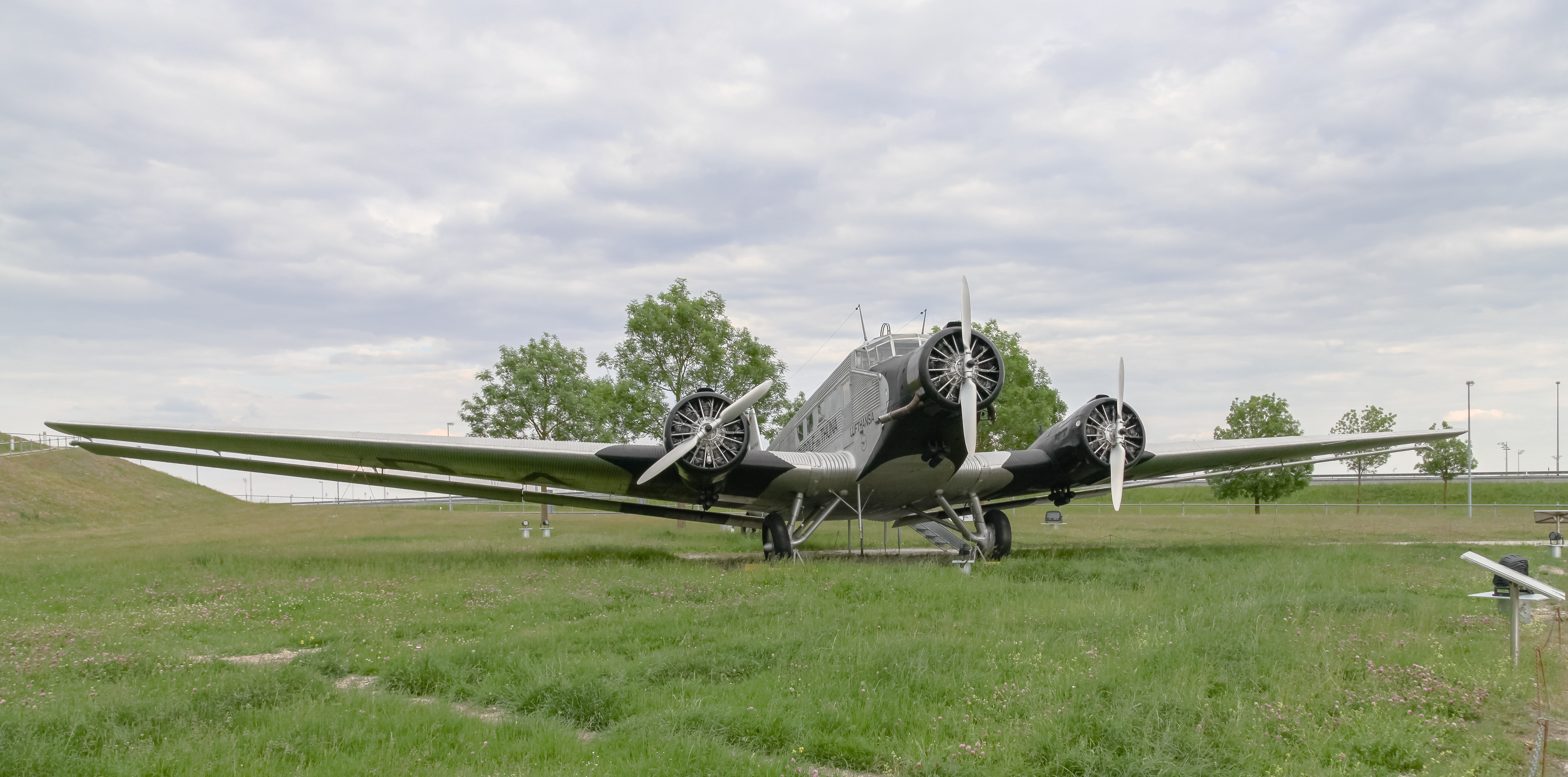 Junkers Ju 52 warbirds and museum aircraft at the Munich Airport Visitors Park, Germany